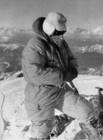 Achille Compagnoni on the summit of K2, using oxigen mask.